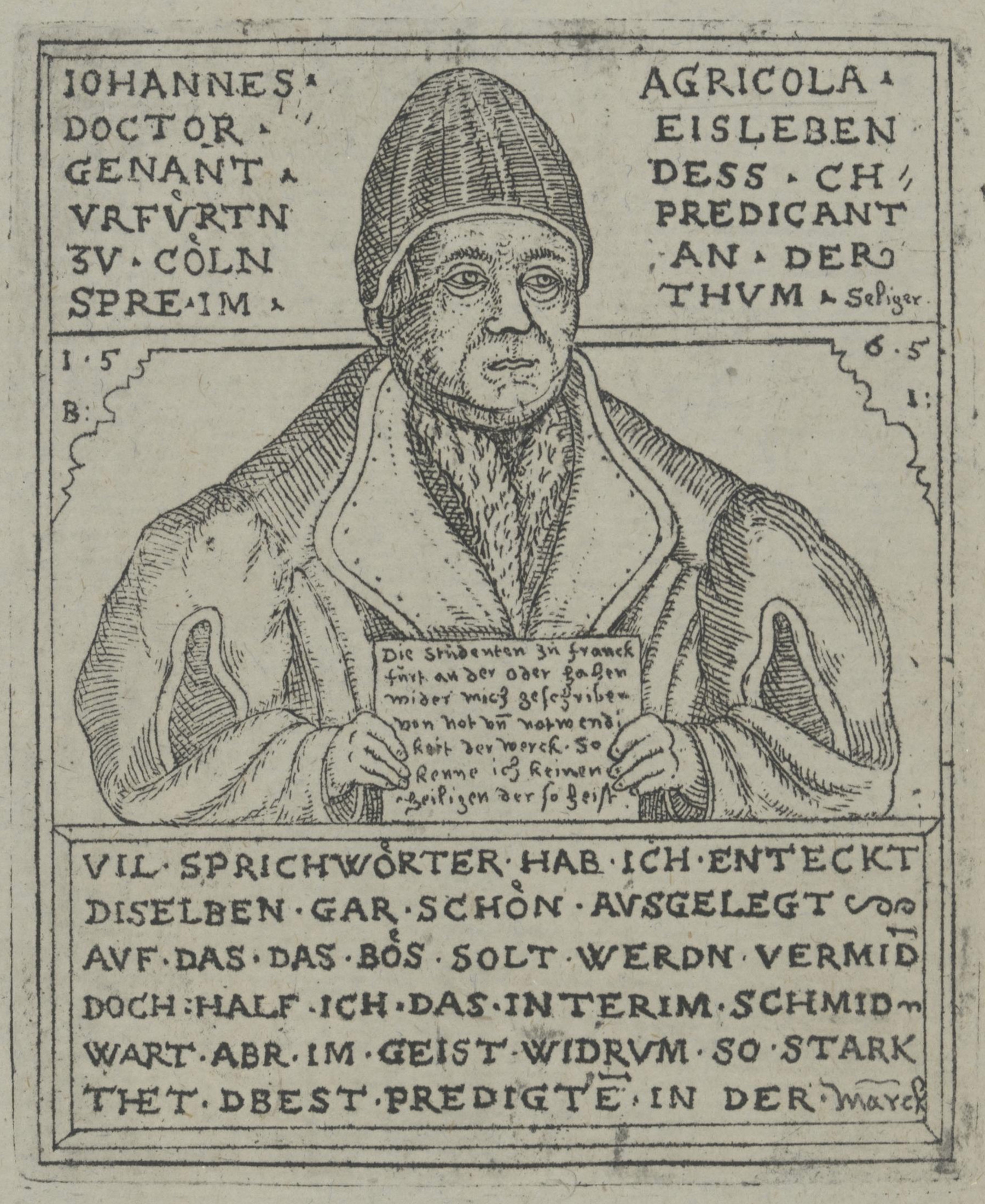 Depicted person: Johann Agricola